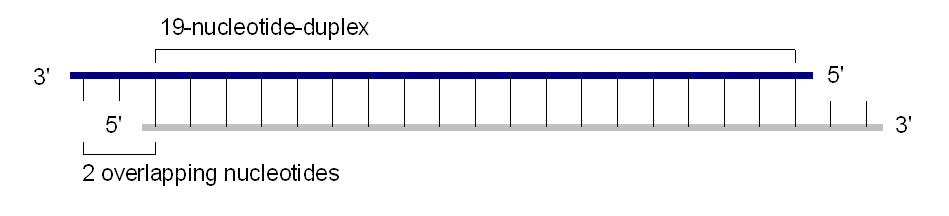 structure of siRNA